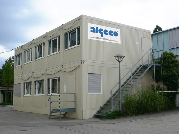 Modular building